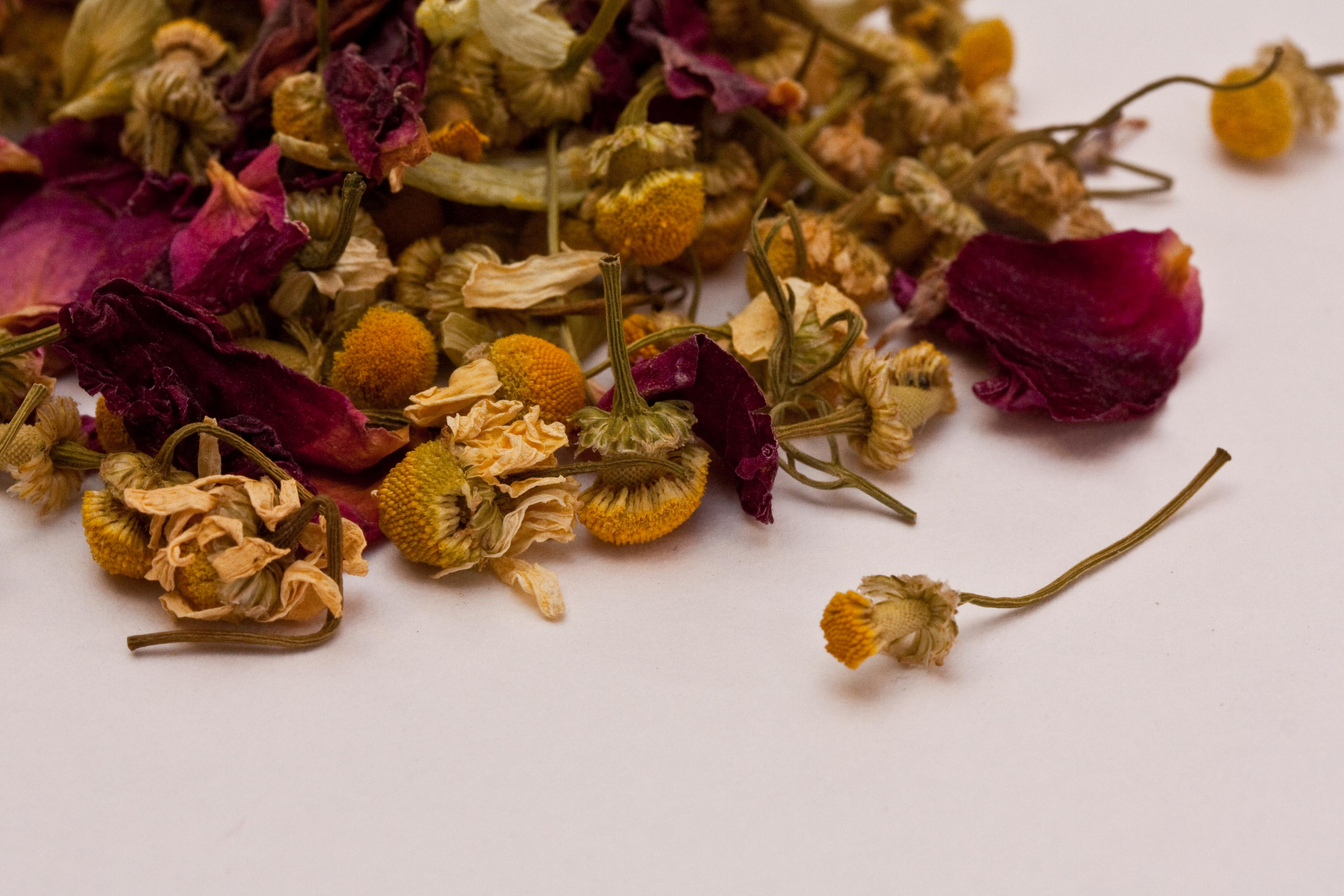 A sleepy tea from a local hop shop - camomile, lavender flowers, rose petals and hops. The tea set - Flickr data (on upload date): Camera: Canon EOS 450D License: CC BY 2.0